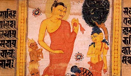 Painting of Gautama Buddha having descended from Triyatrimsa Heaven, attended by devas. Sanskrit Astasahasrika Prajnaparamita Sutra manuscript written in the Ranjana script. Nalanda, Bihar, India. Circa 700-1100 CE.